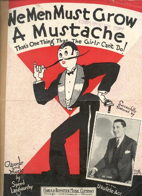 Sheet music cover picture for the song "We Men Must Grow A Mustache." 1922 Inset photo of bandleader Abe Lyman.